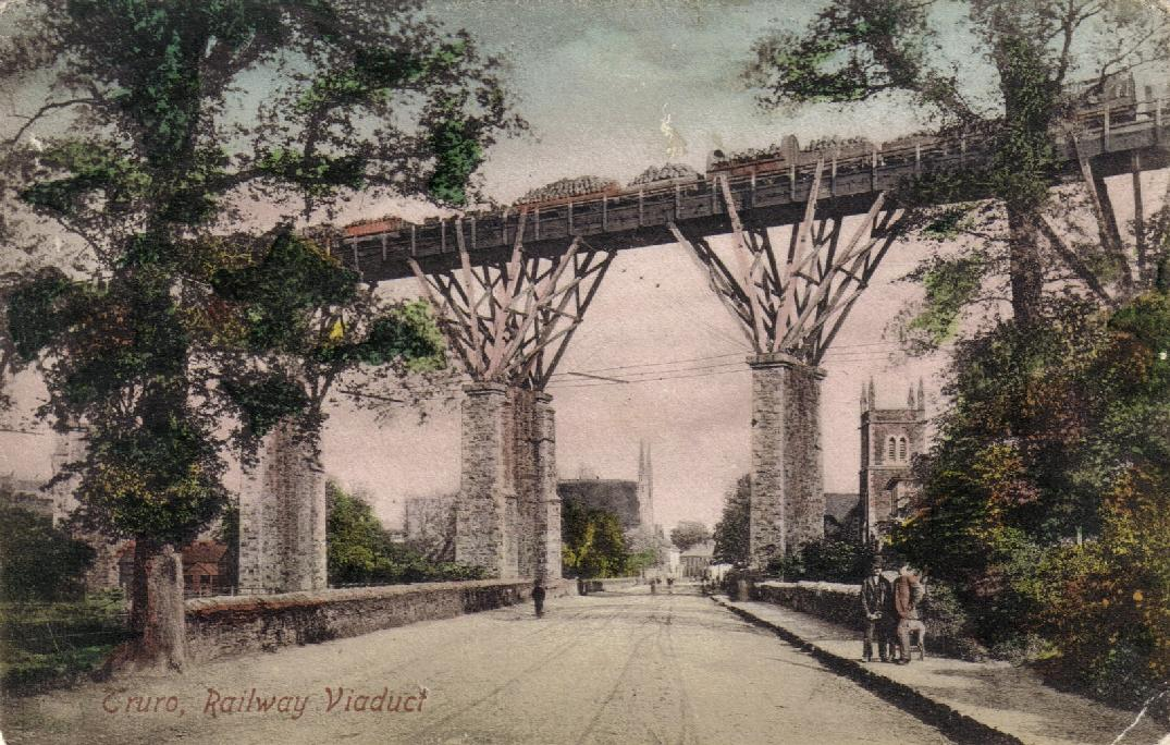 The original timber Carvedras Viaduct across St George's Road, Truro, Cornwall. Built by Isambard Kingdom Brunel for the Cornwall Railway, opened in 1859. The train is a broad gauge goods train.